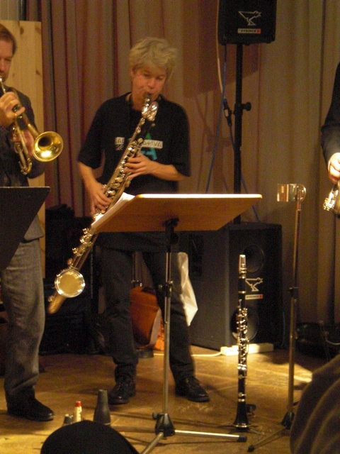 Lori Freedman december 11th, 2010 at Loft (Cologne), Germany, in concert as member of the Ig Hennemann Sextet